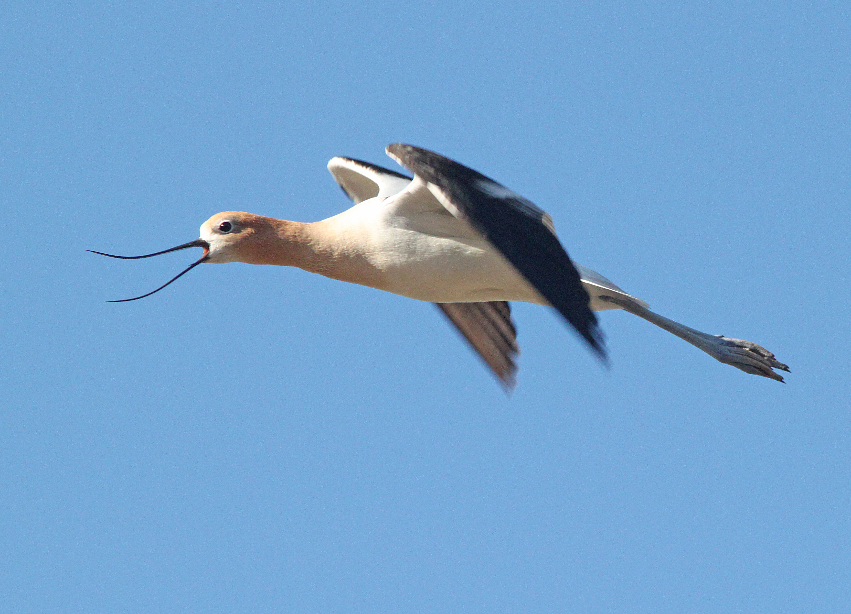 CALIFORNIA - BIRDS of San Luis Obispo Co